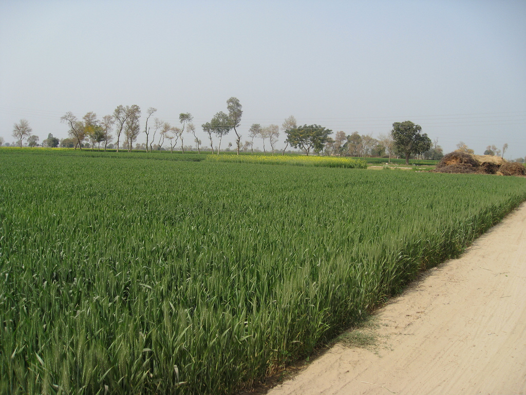 Wheat fields near Hasilpur in Punjab, Pakistan